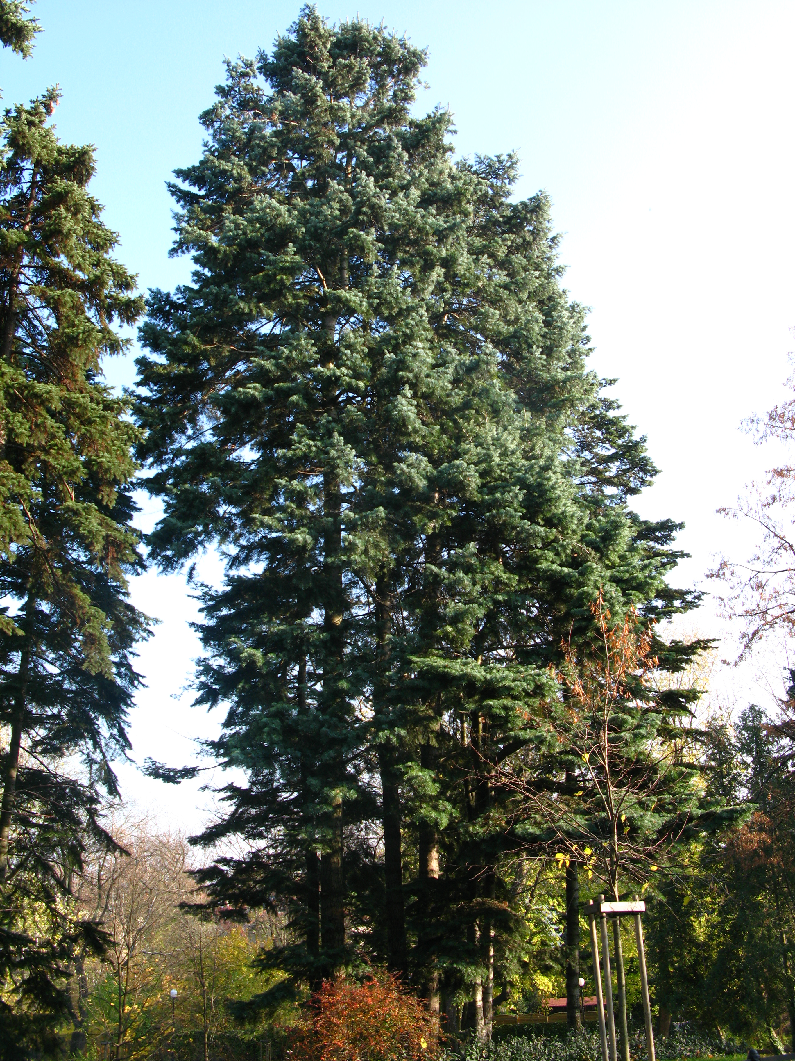 Abies concolor in Park Żeromskiego in Warsaw